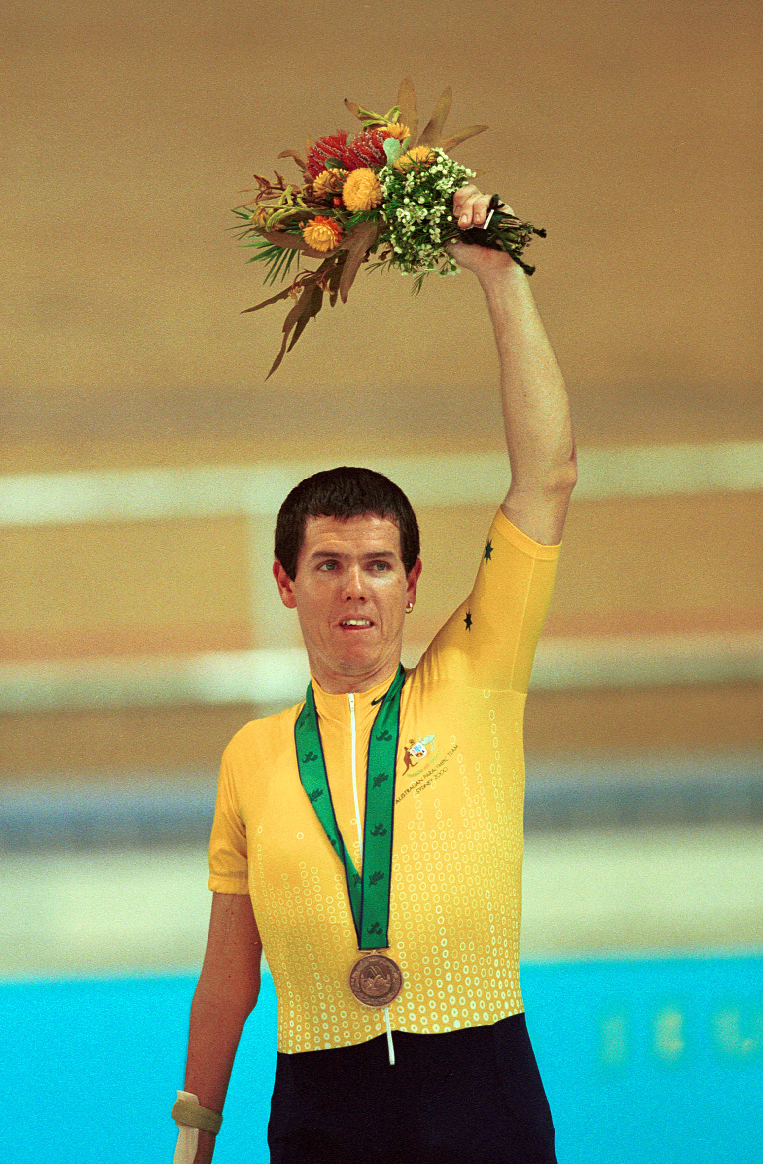 Australian track cyclist Paul O'Neill on the podium with his bronze medal won at the LC1 1km Time Trial event, 2000 Sydney Paralympic Games